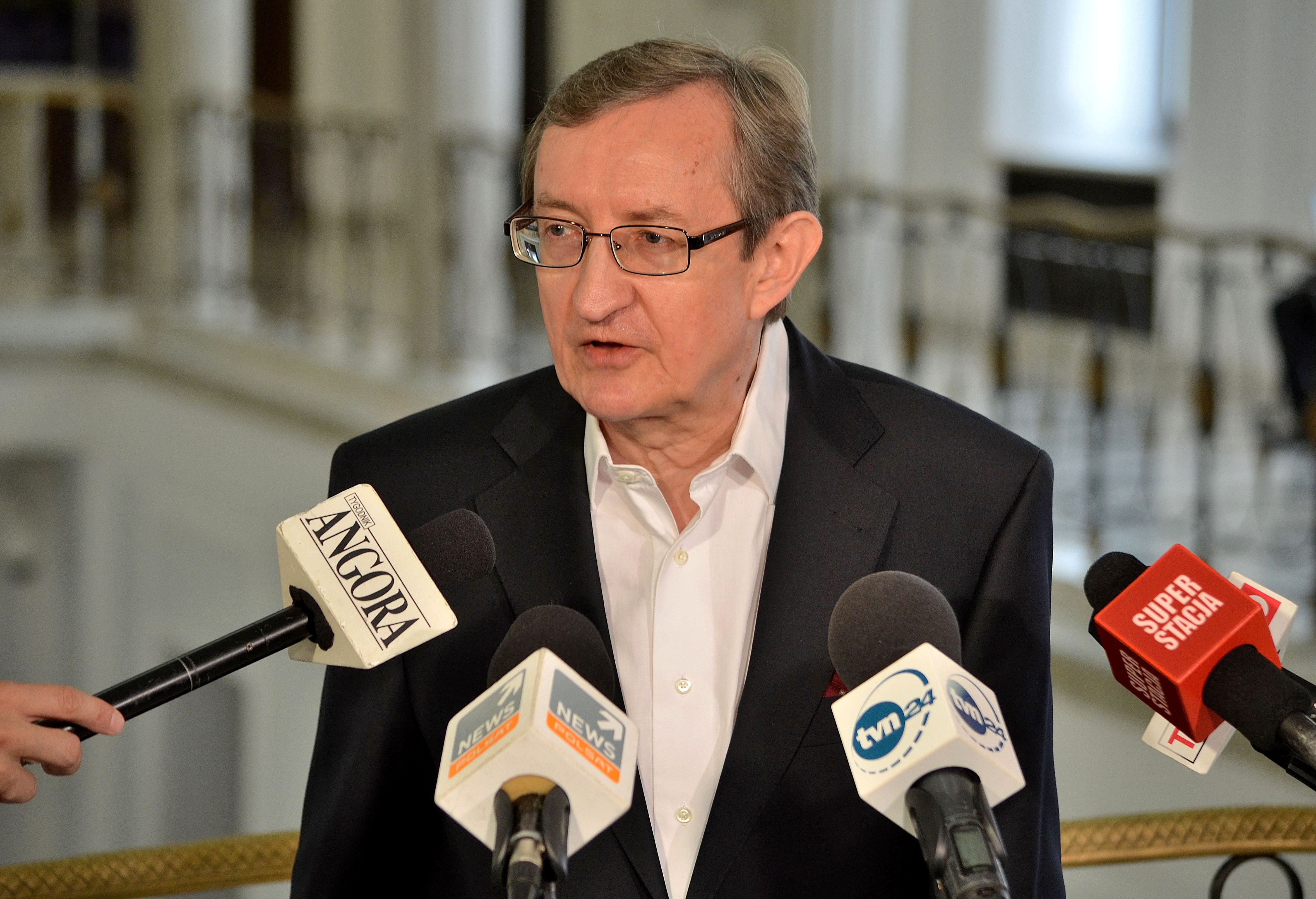 Senator Józef Pinior in the Polish Sejm